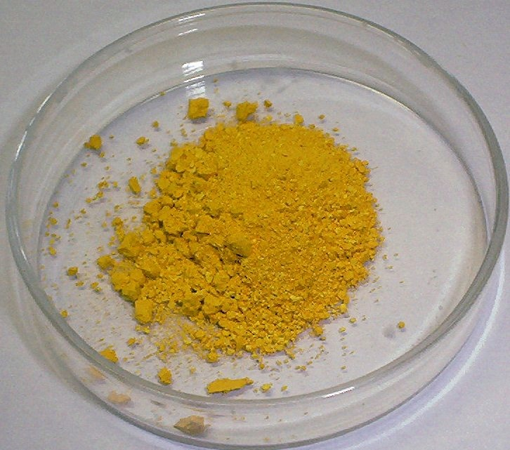 Lead chromate (chrome yellow)